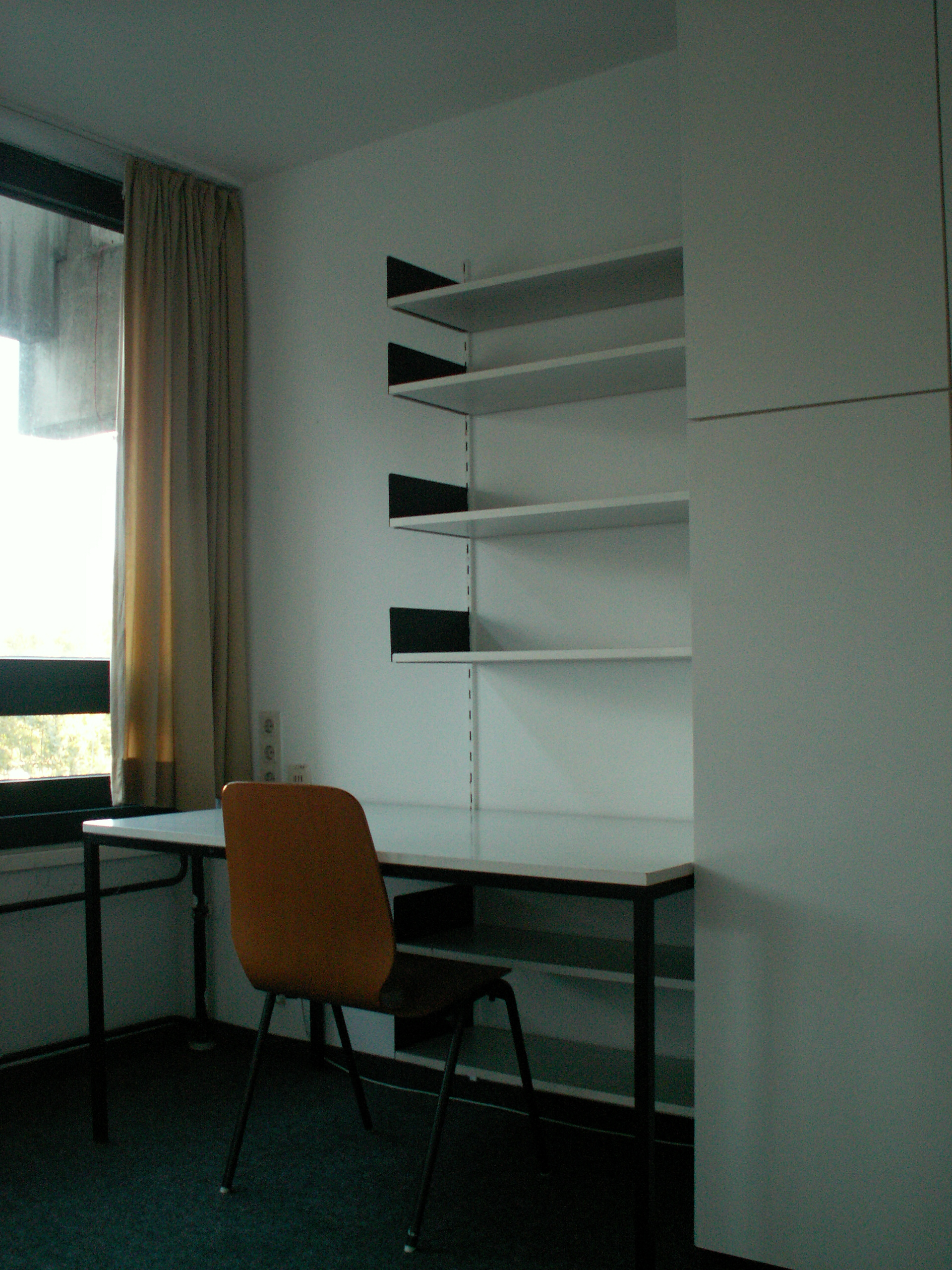 Room in the Hanns Seidel Haus at the Studentenstadt Fraimann, Munich